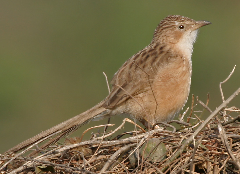 Common Babbler Turdoides caudata at Hodal, Faridabad, Haryana, India.